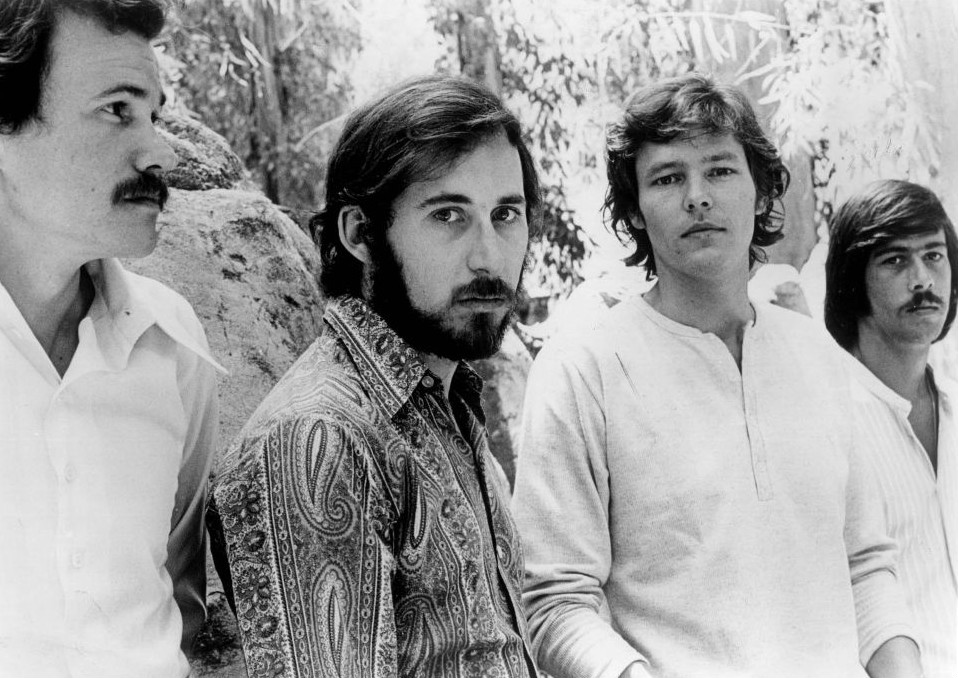 Publicity photo of the musical group Bread.